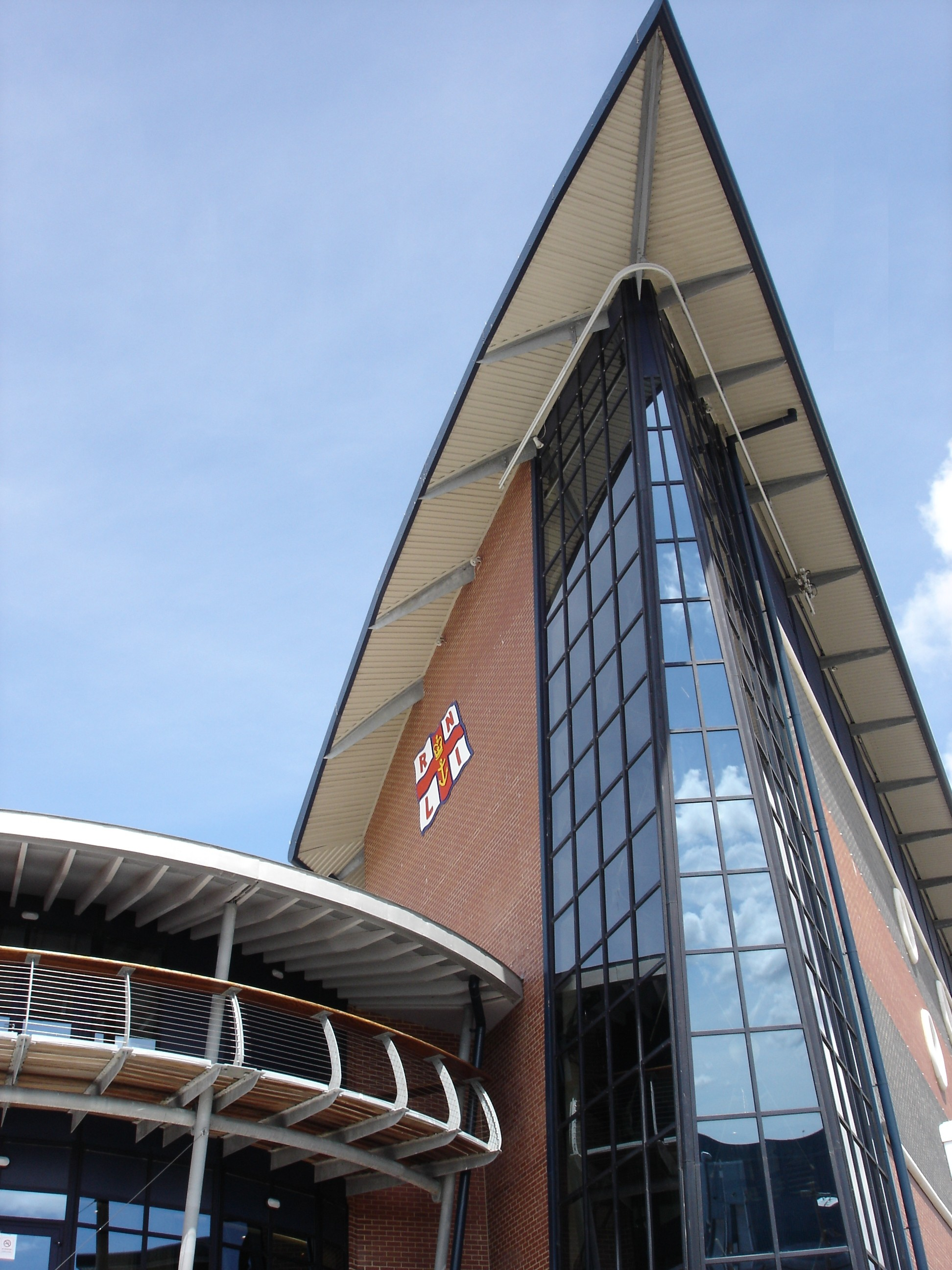 The Lifeboat College, RNLI, Poole, July 2007